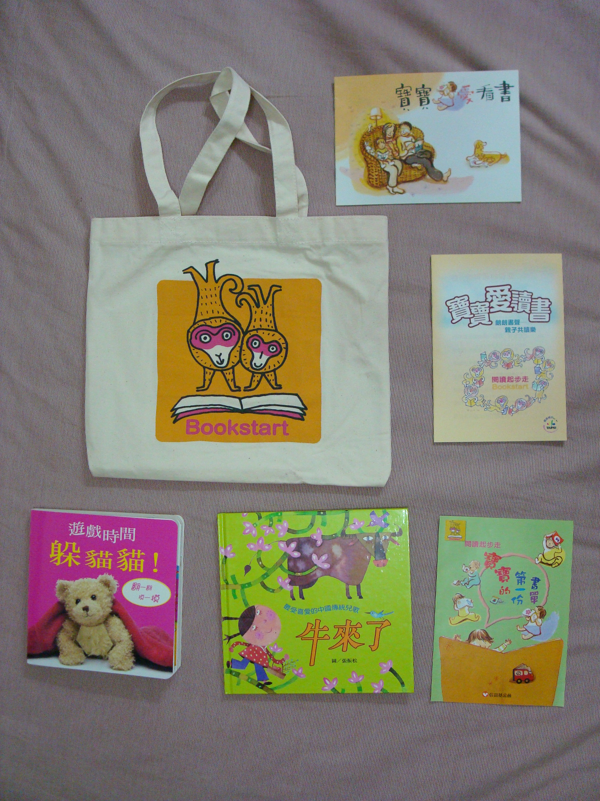 Bookstart packs and content in Taiwan in 2008.